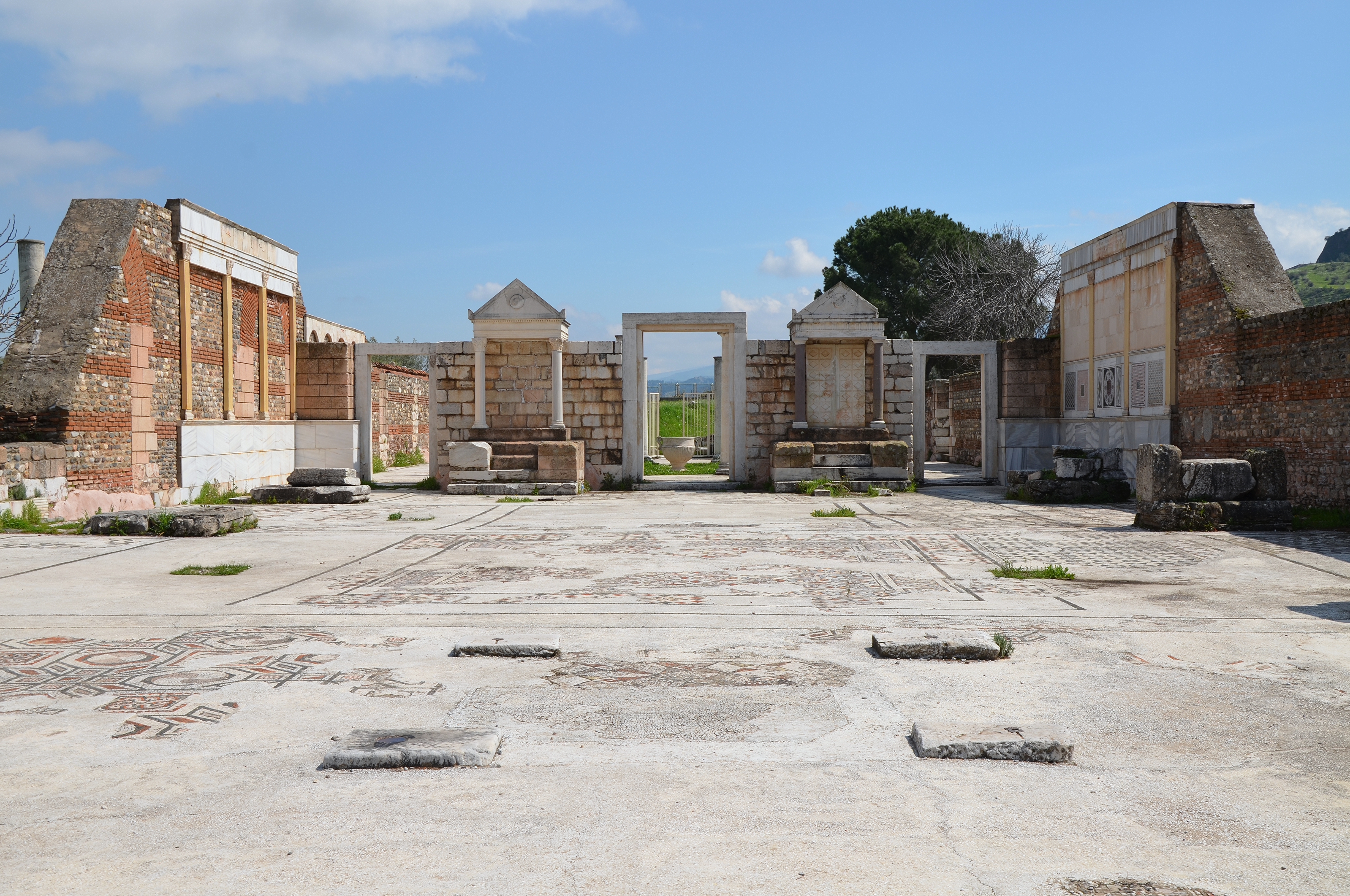 Sardis Synagogue, late 3rd century AD, Sardis, Lydia, Turkey